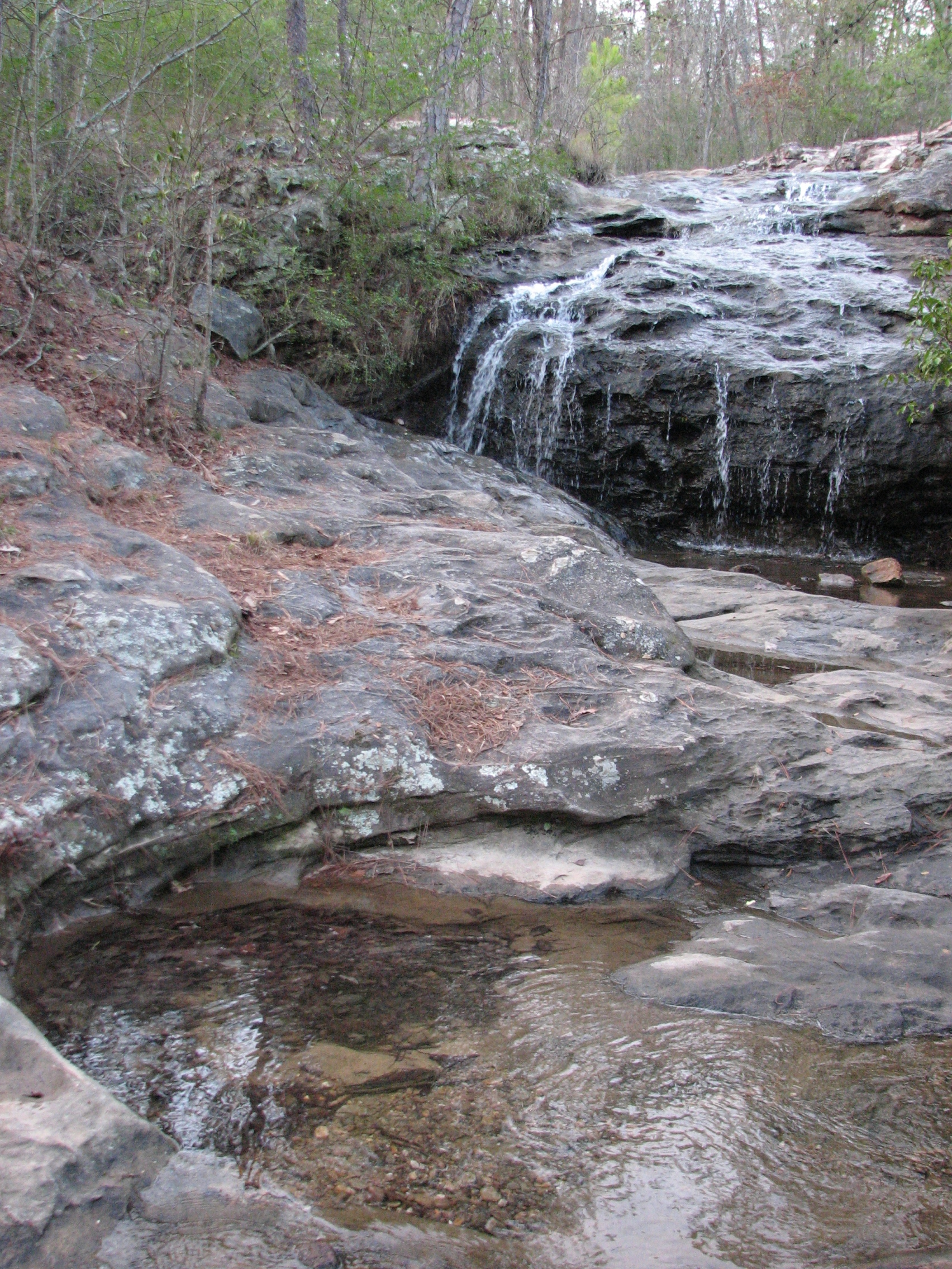 Falls at Moss Rock Preserve, hidden away in the heart of old Hoover, Alabama, a mile or two from Interstate 459